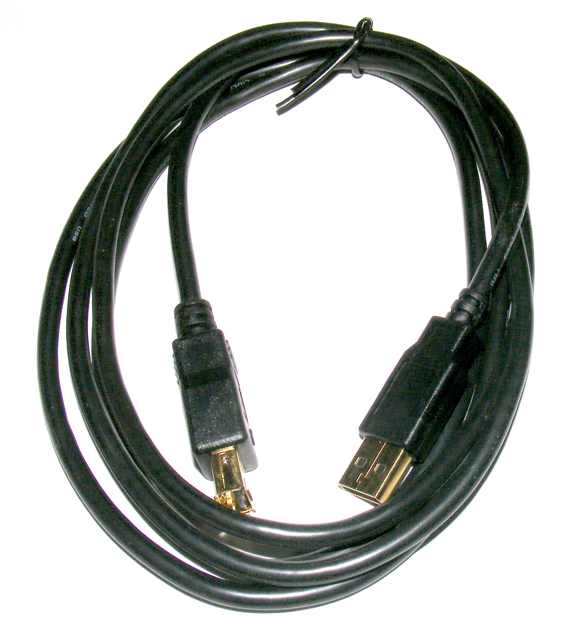 A "Tripp-lite" USB connection cable. Photo taken by myself today.